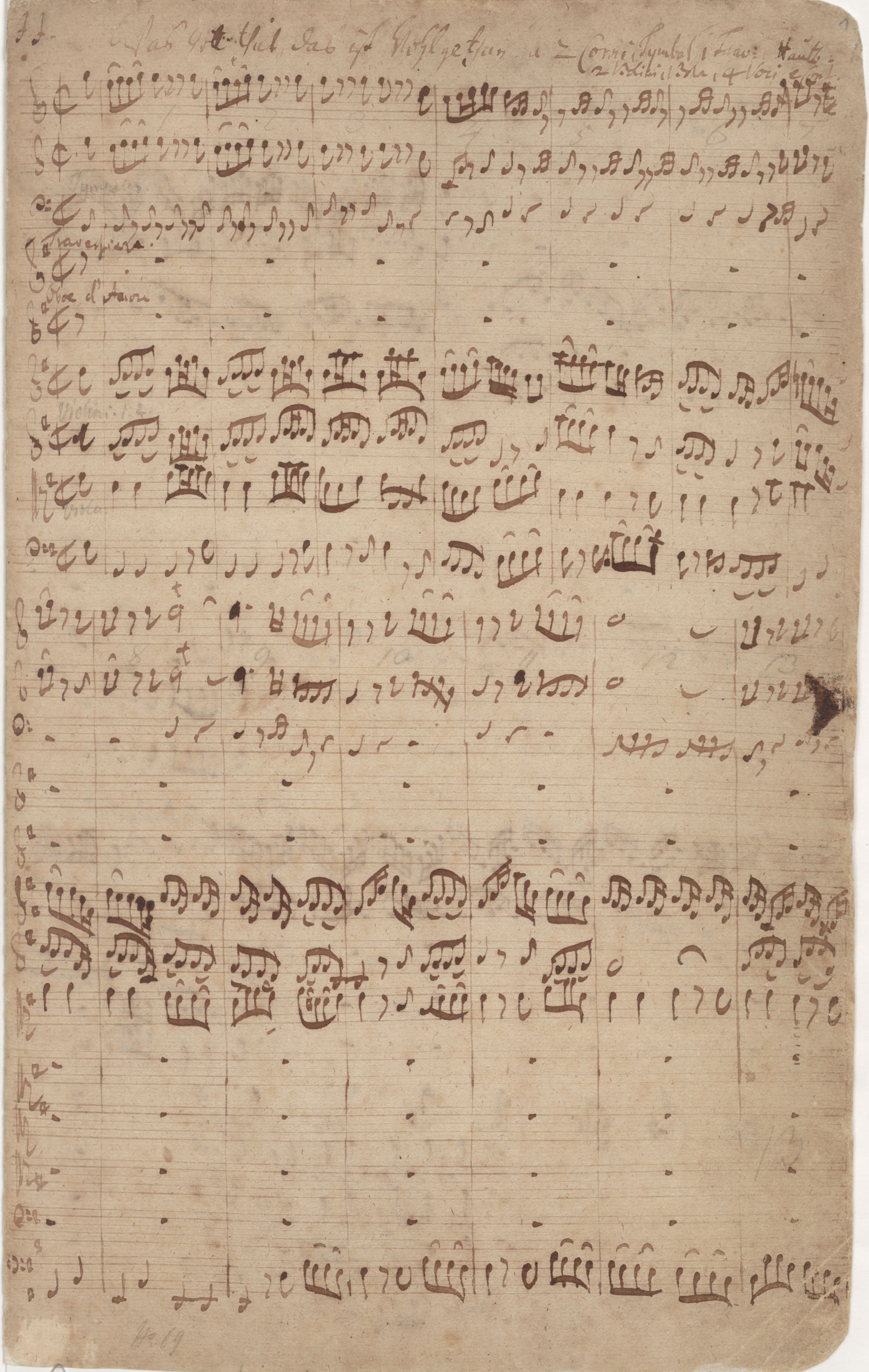 First page of autograph manuscript of the cantata Was Gott tut, das ist wohlgetan, BWV 100 by Johann Sebastian Bach